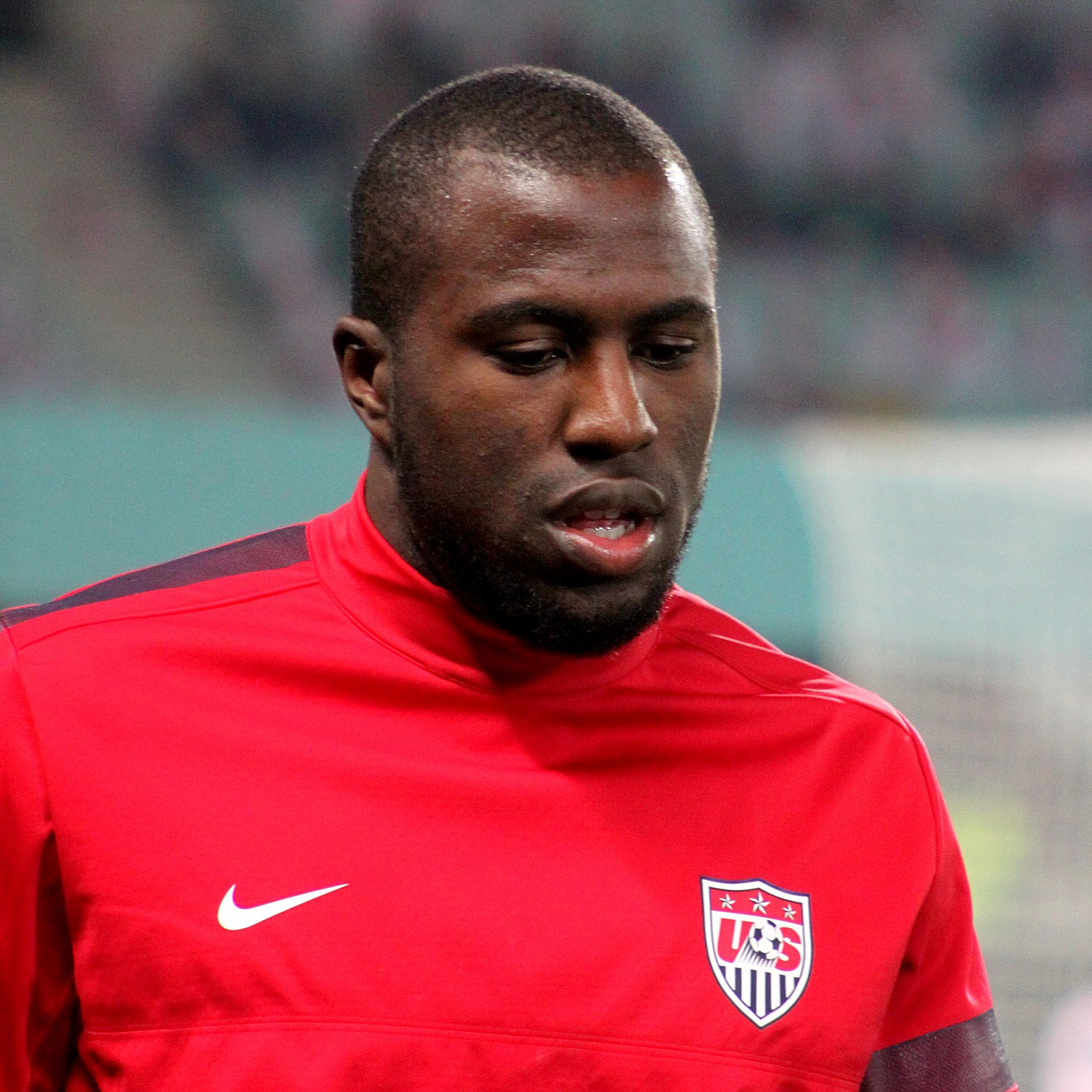 Friendly-match Austria vs. USA (1:0) in the Ernst-Happel-Stadion in Vienna at 2013-03-22. – The photo shows Jozy Altidore (USA).